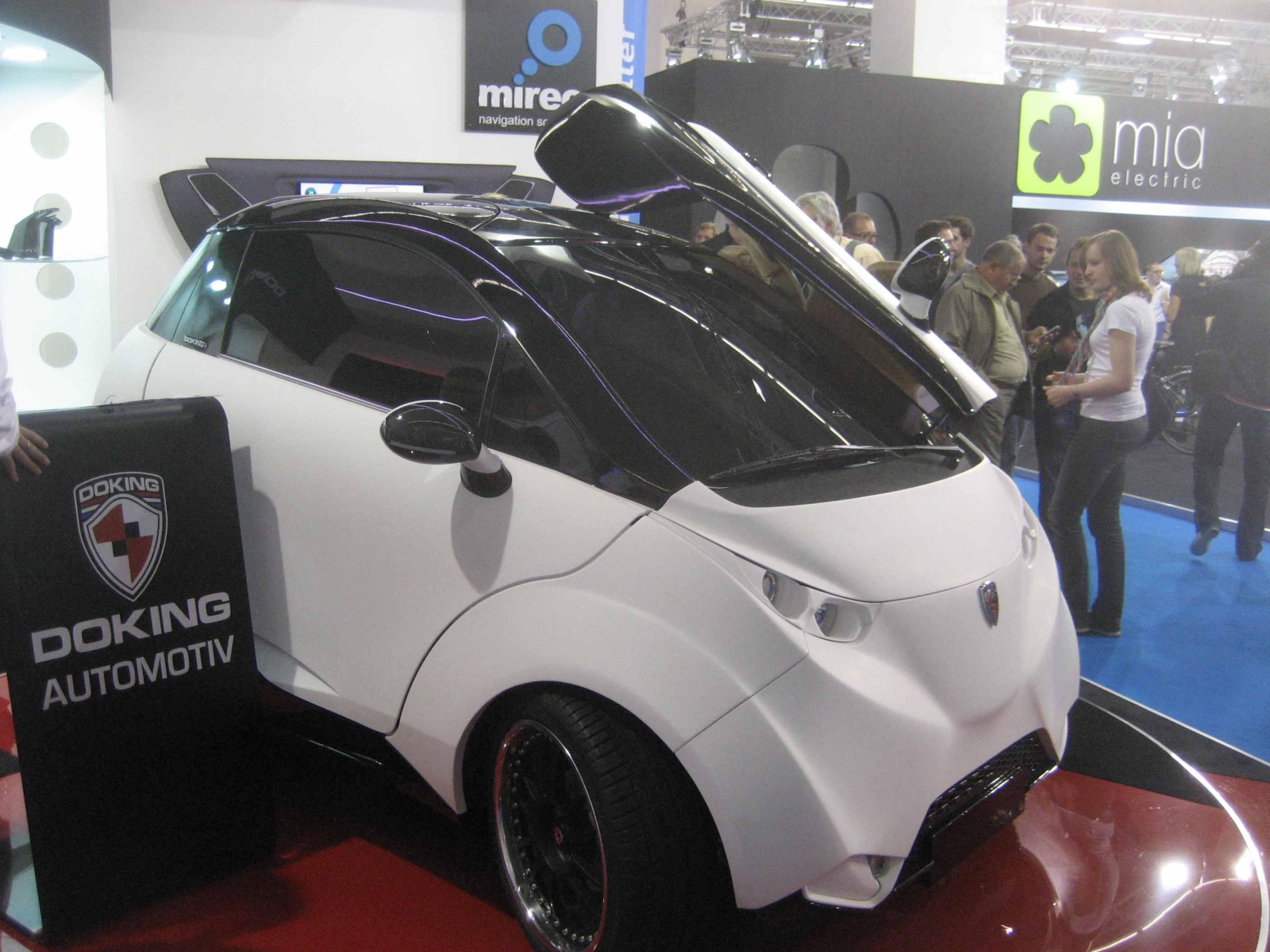 DOK ING, at IAA exhibition in Frankfurt 2011.